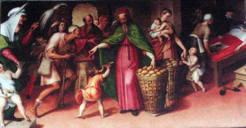 Blessed Facio of Cremona, painting of a Cremonese author, ca. 1550